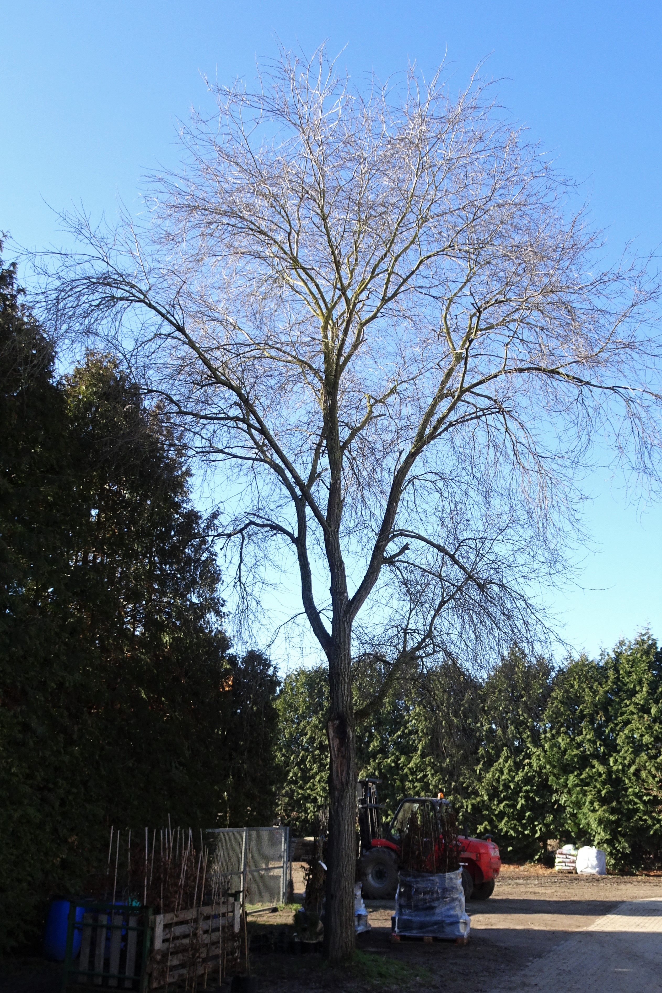 Photo of Ulmus 'Homestead' taken in autumn at Darmstadt Brandschneise, Germany